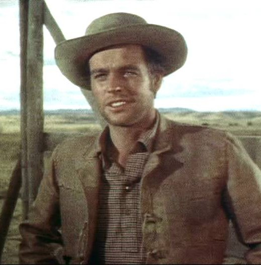 Robert Wagner in a screenshot from the trailer for the film Broken Lance. -cropped